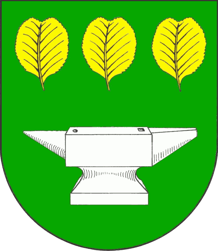 Coat of arms of the municipality Weesby in Schleswig-Holstein, Germany.